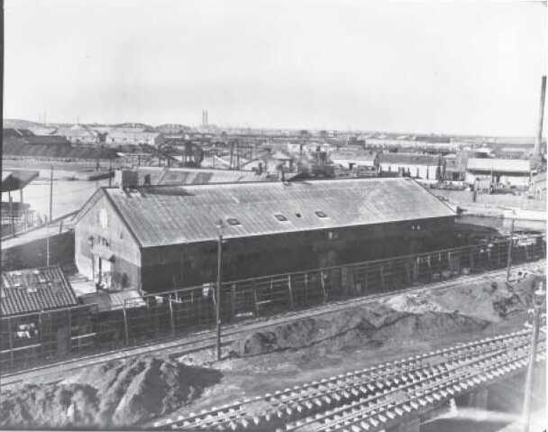 Tokyo 10 B Prison of War Camp (POW Camp), which was previously named Tokyo 20 B, previously located at 3-41 Minami-Senju, Arakawa-ku, Tokyo, Japan.